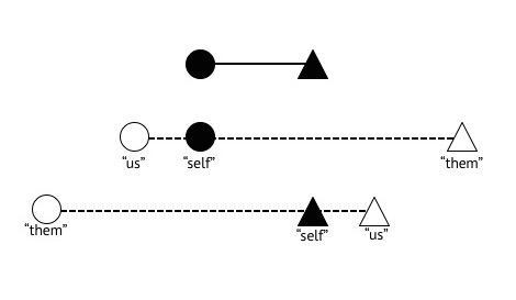 Illustration of naive realism (real versus perceived differences in viewpoint)